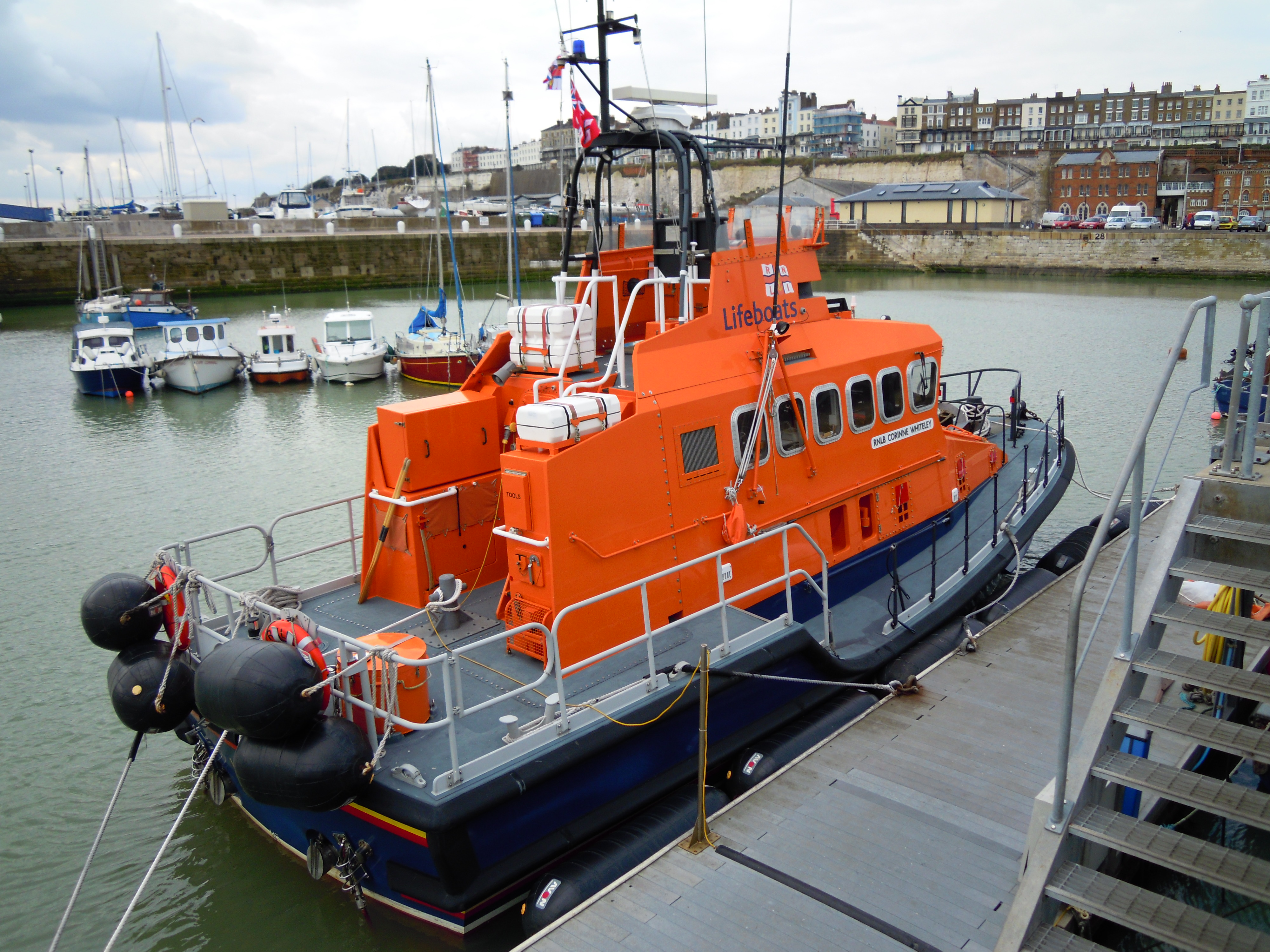 Trent Class Lifeboat Corinne Whiteley ON 1253 at Ramsgate Lifeboat Station, Sunday 4 April 2010